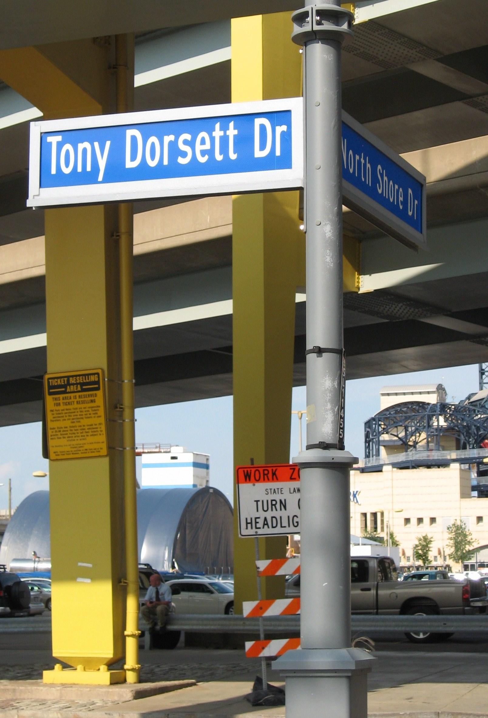 Tony Dorsett Drive near Heinz Field40°26′46.2″N 80°0′35.8″W / 40.446167°N 80.009944°W